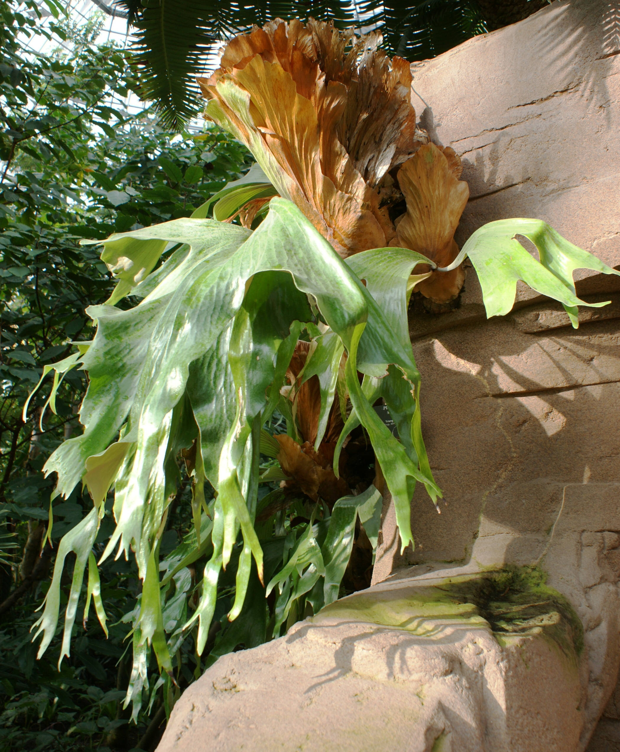 Platycerium stemaria